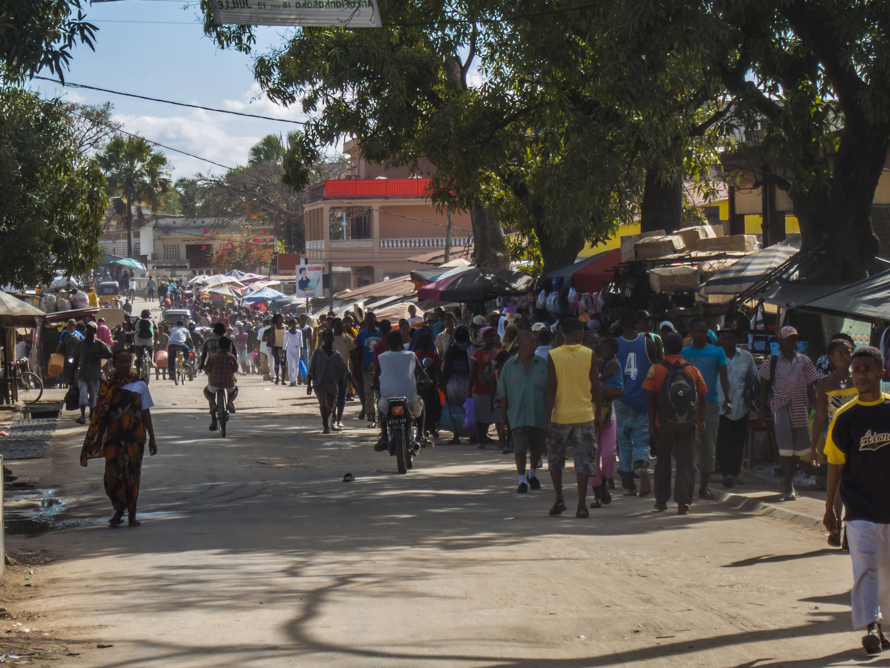 Ambilobe, Diana Province, Madagascar: the main street on a busy market day, every Thursday.